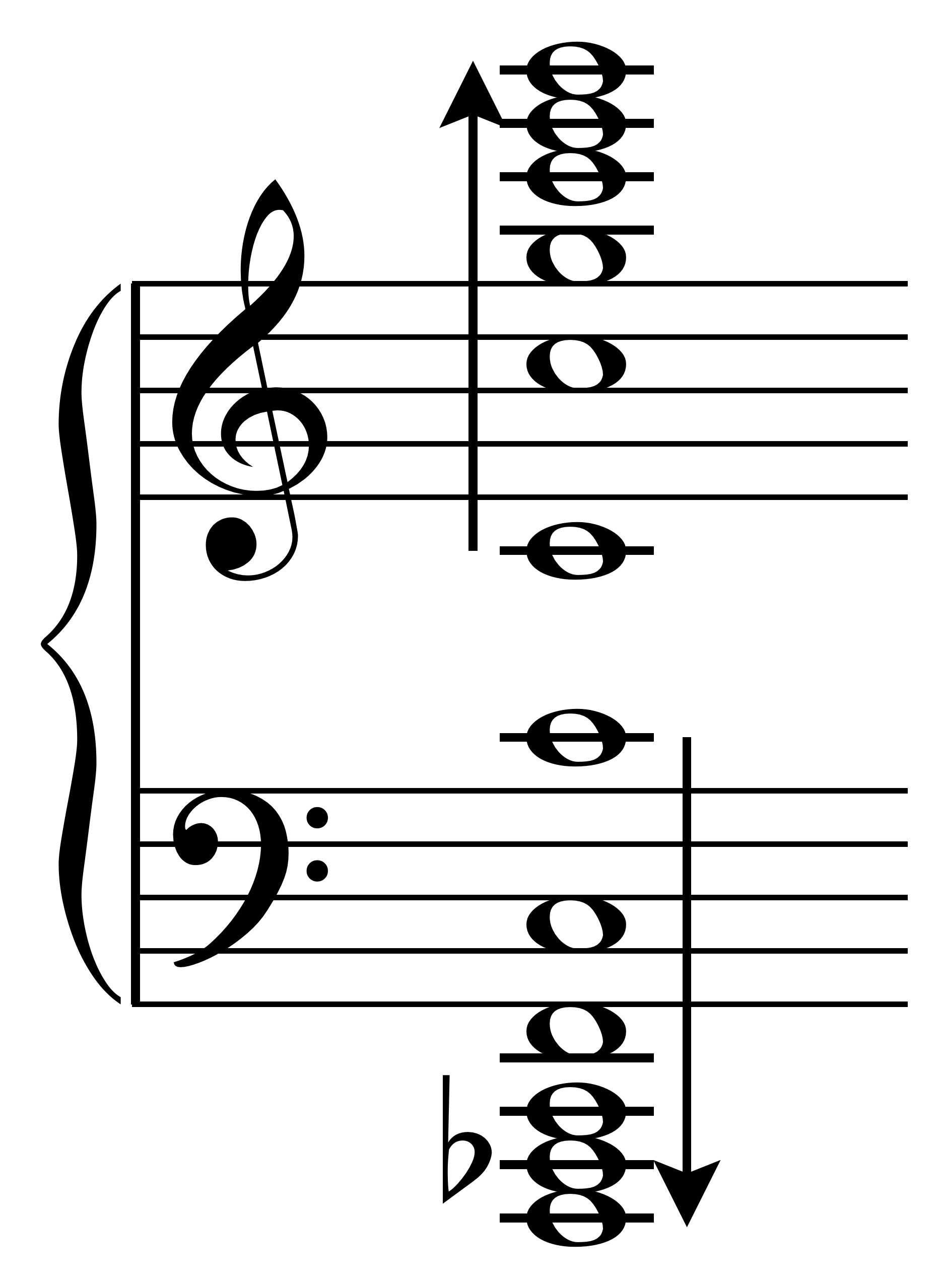 The overtone and undertone series are symmetrical. 2nds becomes 7ths, 3rds become 6ths, 4ths become 5ths, and vice versus; major becomes minor, augmented becomes diminishes, and vice versus.